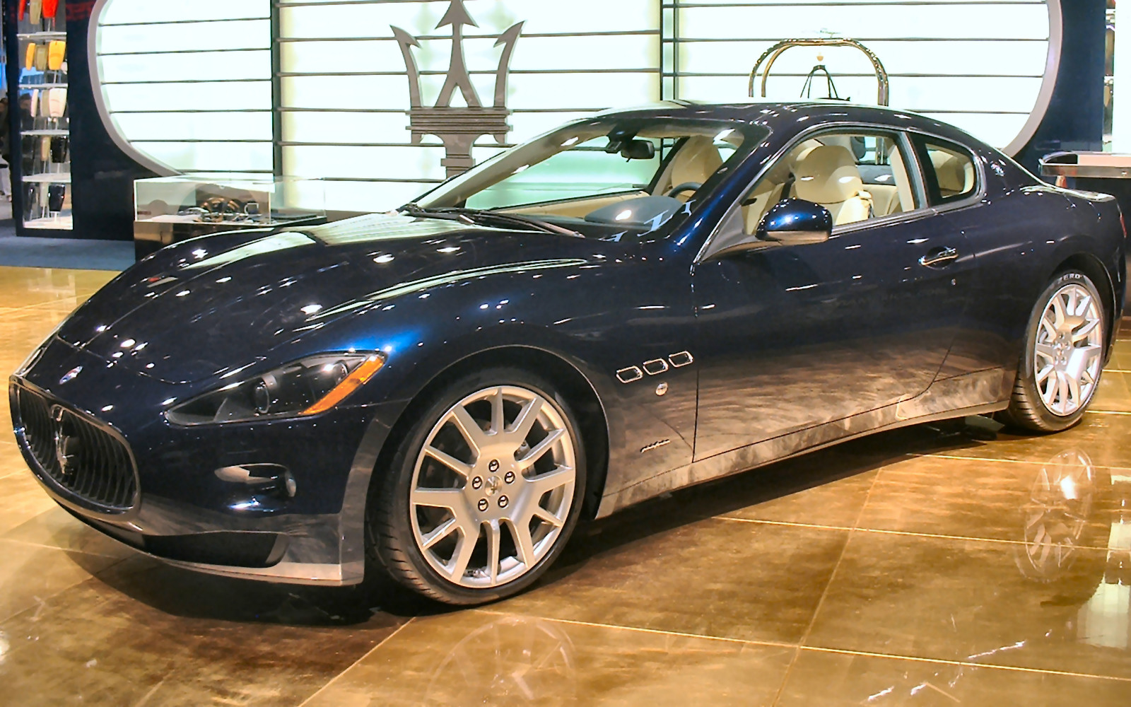 Picture of the Maserati GranTurismo at the 2007 New York International Auto Show